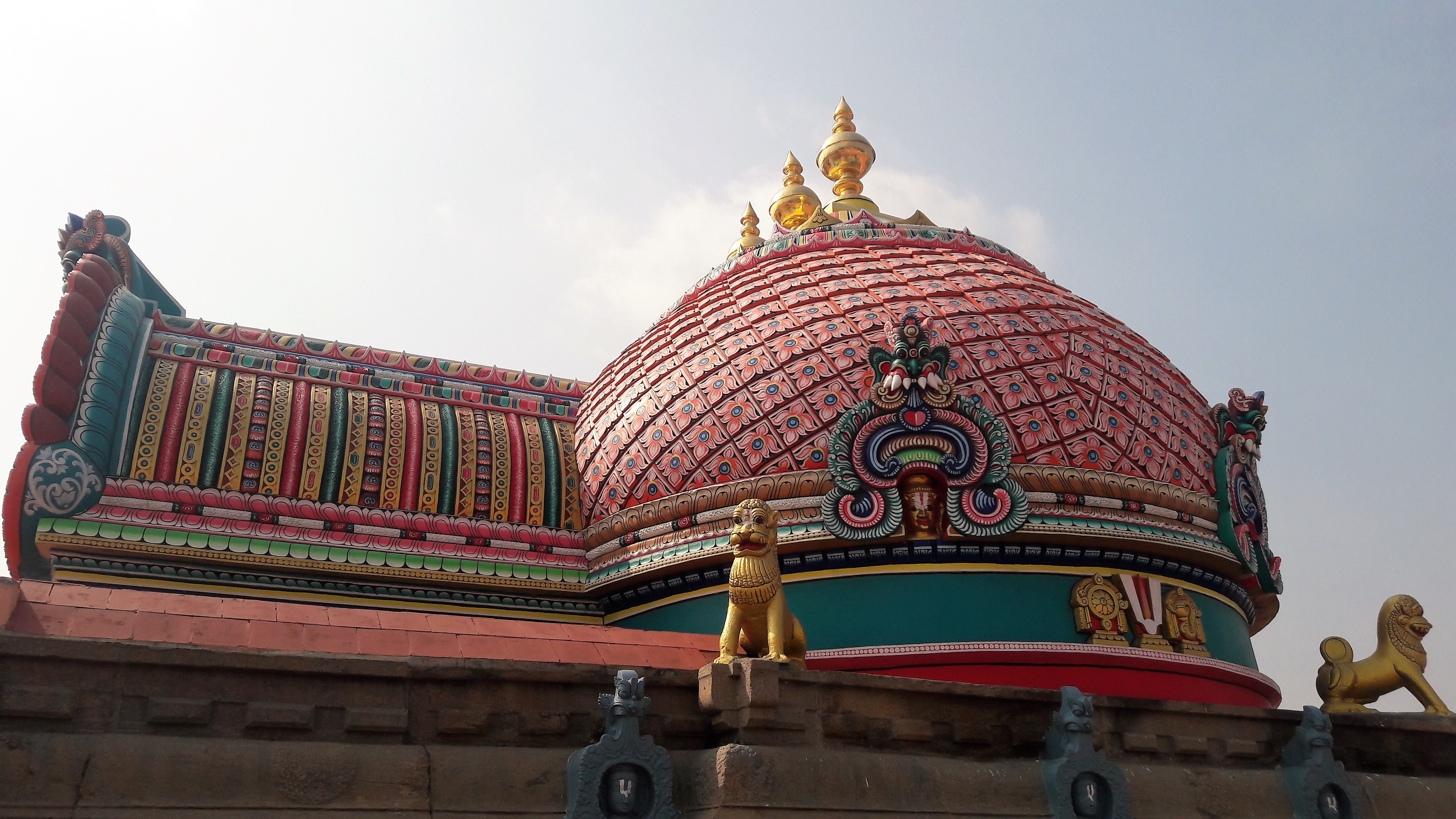 Thiruthankal Ninra Narayana Perumal